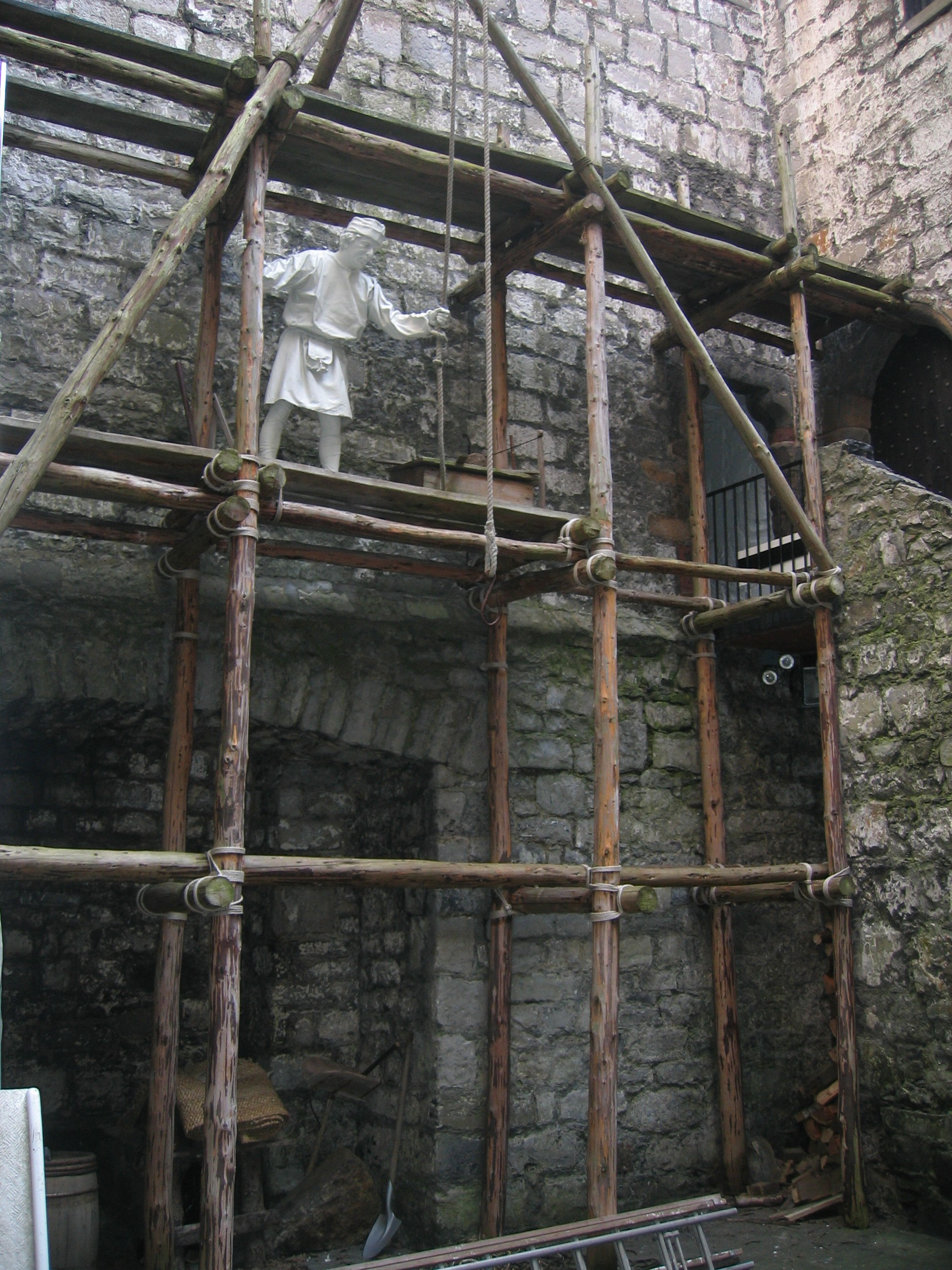 Outdoor exhibition at Castle Rushen in the Isle of Man showing how the medieval sections of the Castle was built.